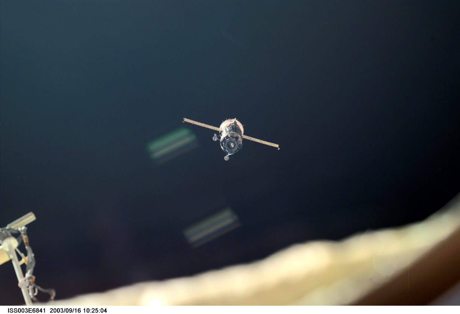 ISS approached by TM-33 Soyuz